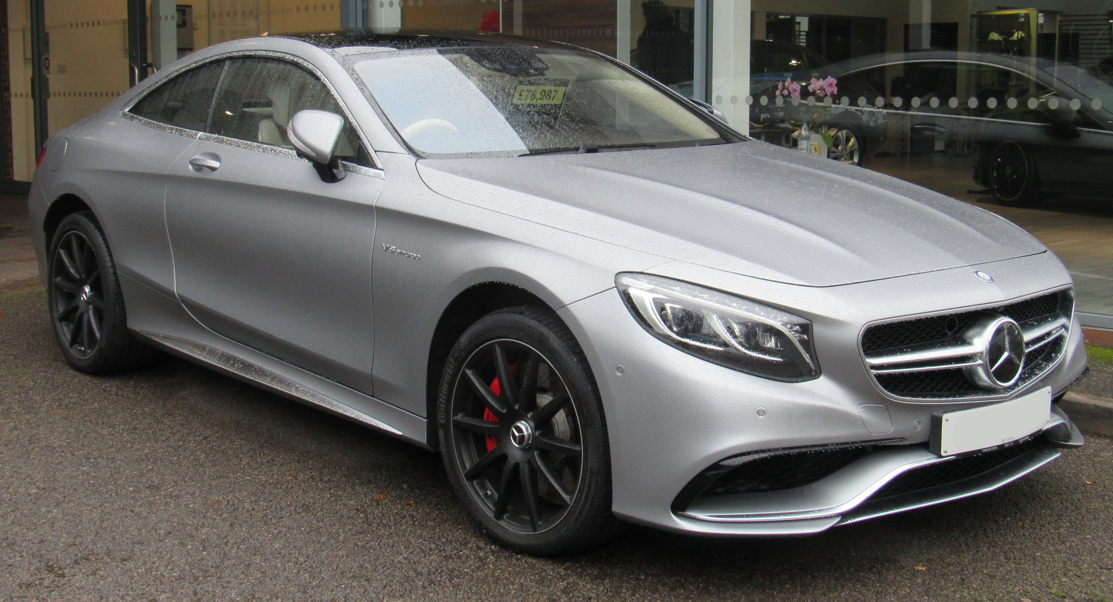 2015 Mercedes-Benz S63 AMG Coupe Automatic 5.5 Front Taken in Stratford-upon-Avon